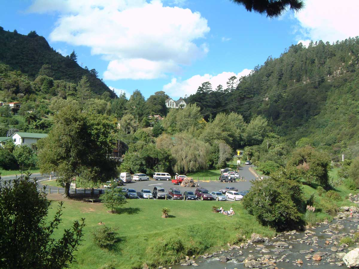 Karangahake Gorge. Taken by me, Ben Davies, March 2005, using a FijiFilm FinePix 6800. digital camera.